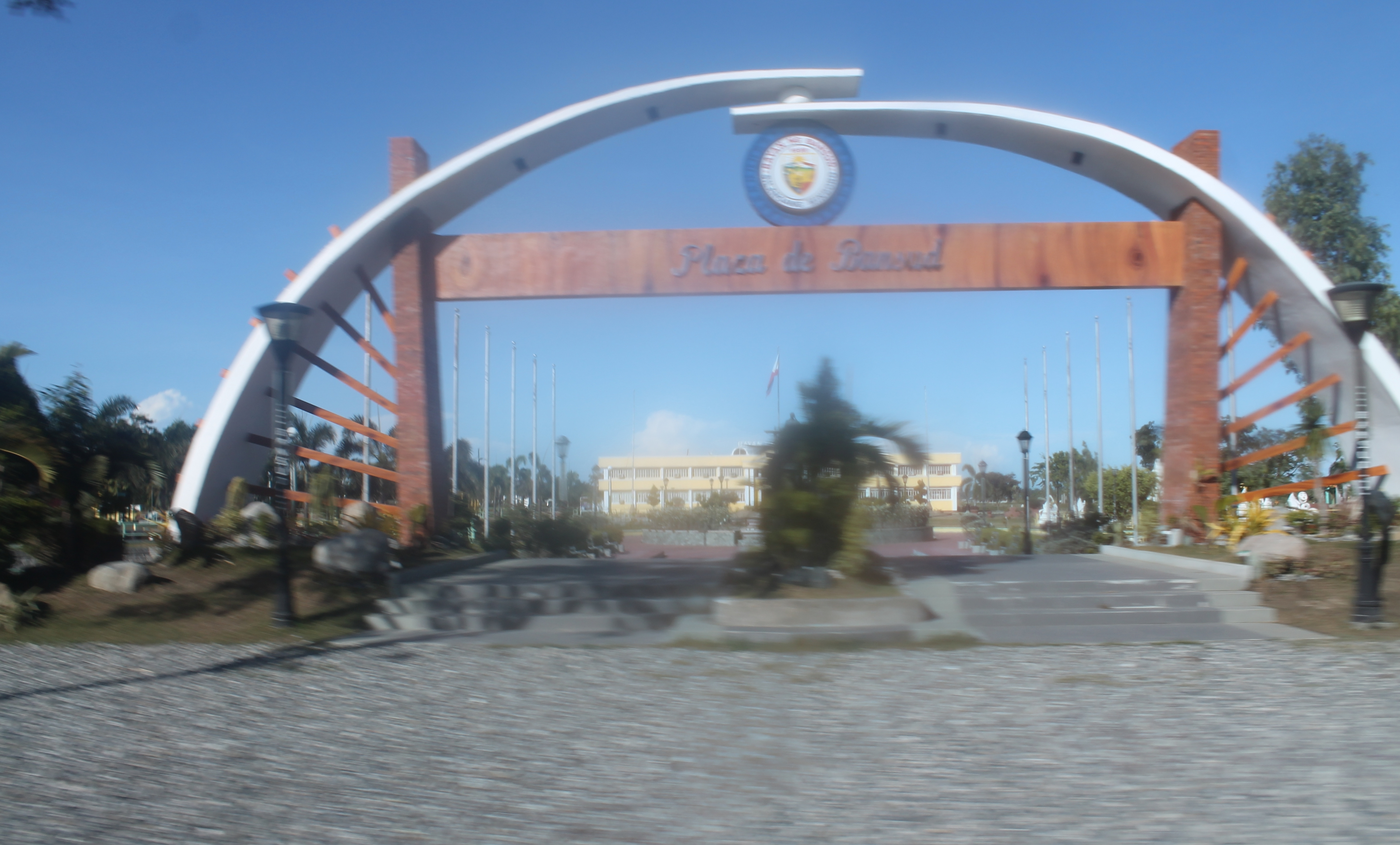 Plaza de Bansud, the town plaza of Bansud, Oriental Mindoro, Philippines.